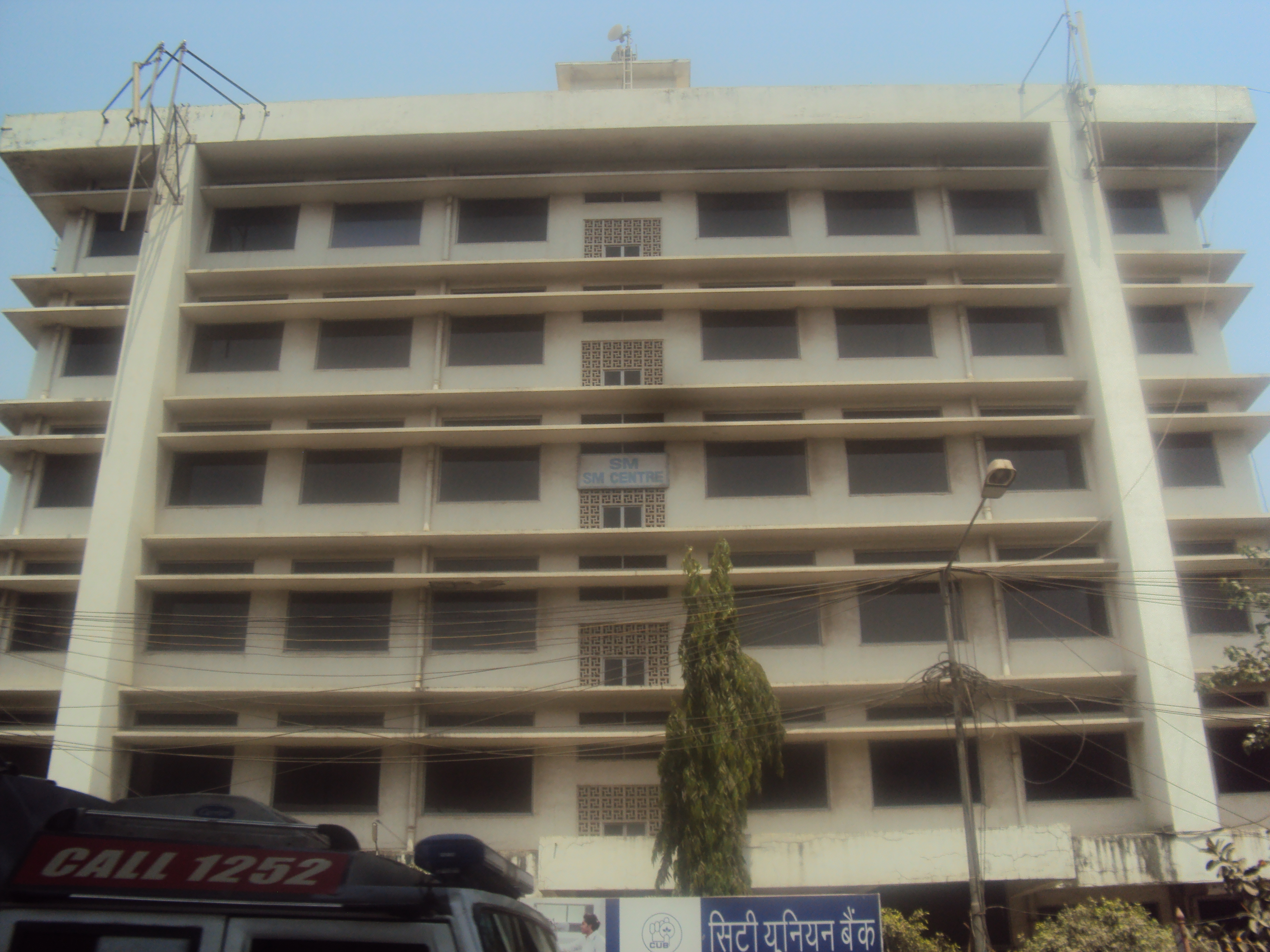 Jet Airways previous HQ, Andheri (Mumbai). - S.M.Center, Andheri - Kurla Road, Andheri (East), Mumbai, Maharashtra 400059